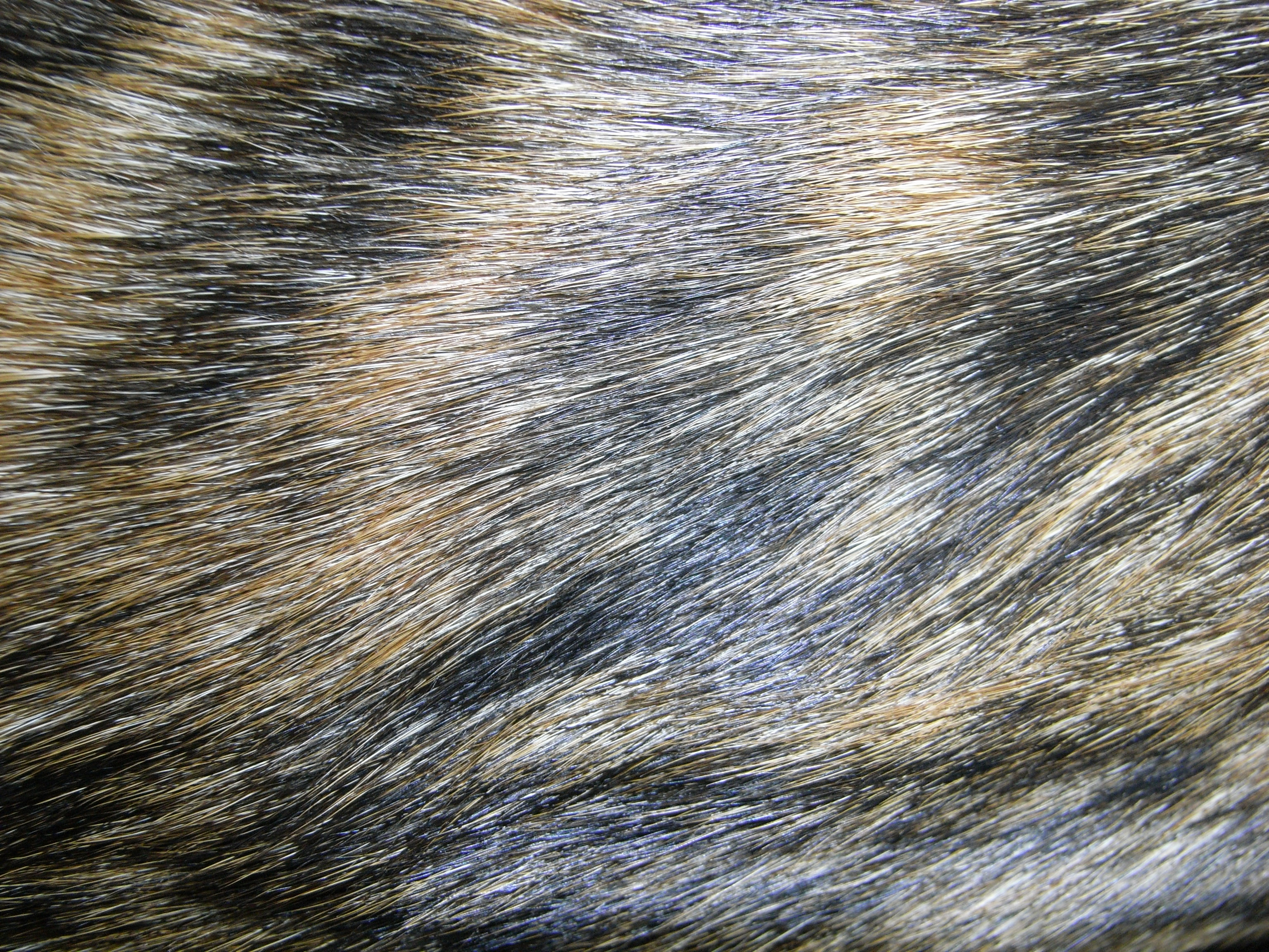 Brindle